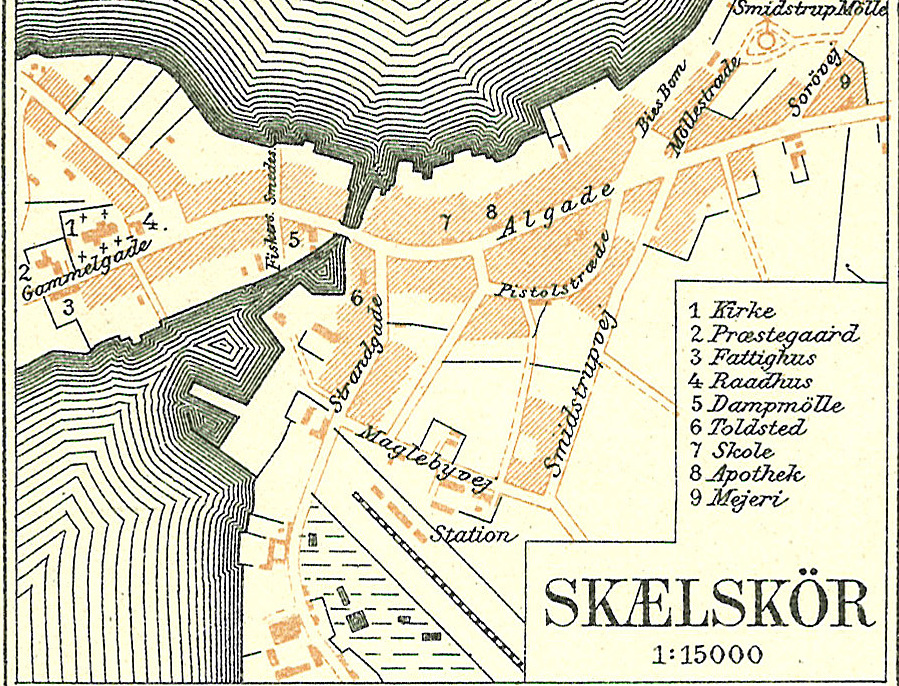 Map of Sorø County in Denmark